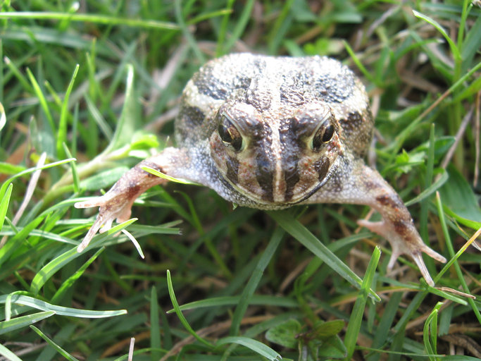 Odontophrynus maisuma